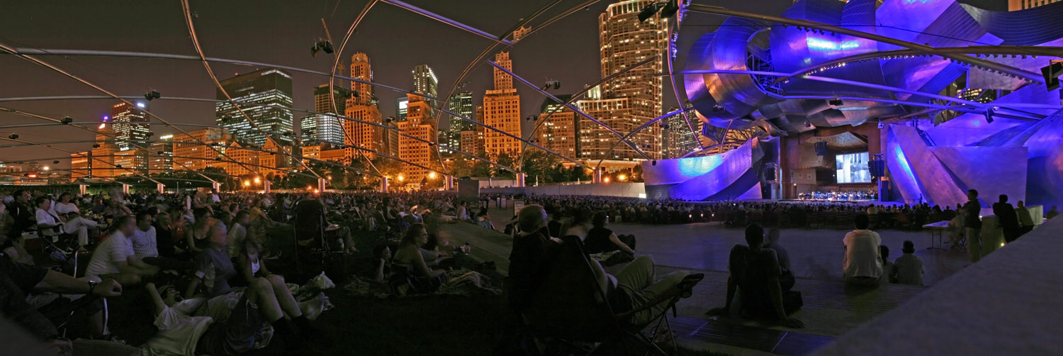 Last night the Grant Park Music Festival presented the U.S. premiere of the 1929 Indian silent film, A Throw of Dice, with original musical arrangement by Asian DJ/multi-instrumentalist Nitin Sawhney and led by guest conductor Stephen Hussey. Thousands of people attended, and I took a couple pics. Great night overall.